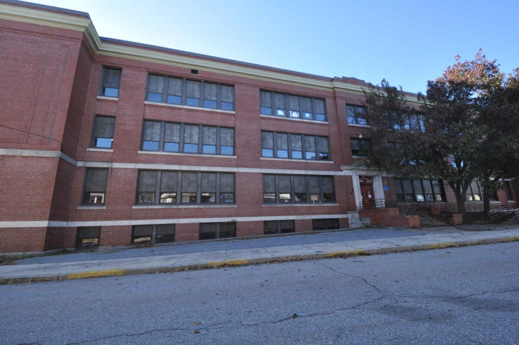 Woonsocket Senior High and Junior High Schools, Senior High School entrance.